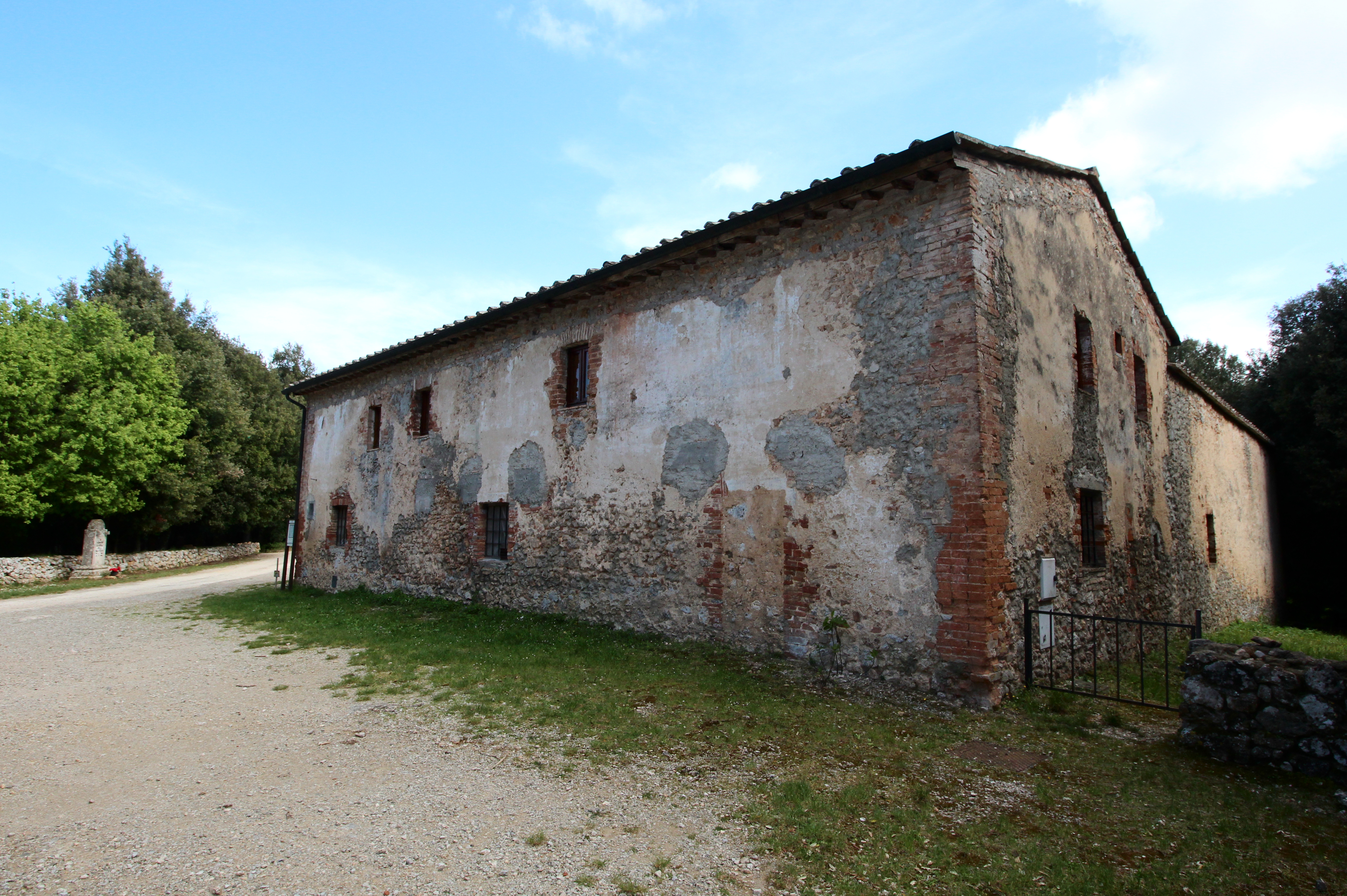 Casa Giubileo, on Mount Maggio (Montemaggio), in woods south of Badia a Isola, Monteriggioni, Province of Siena, Tuscany, Italy